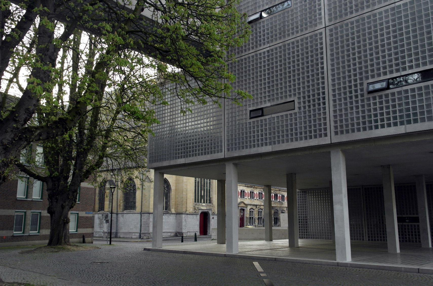 Maastricht, the Netherlands. View from the northeast of the 1990-93 extension of the Maastricht Art School by Wiel Arets at Herdenkingsplein.